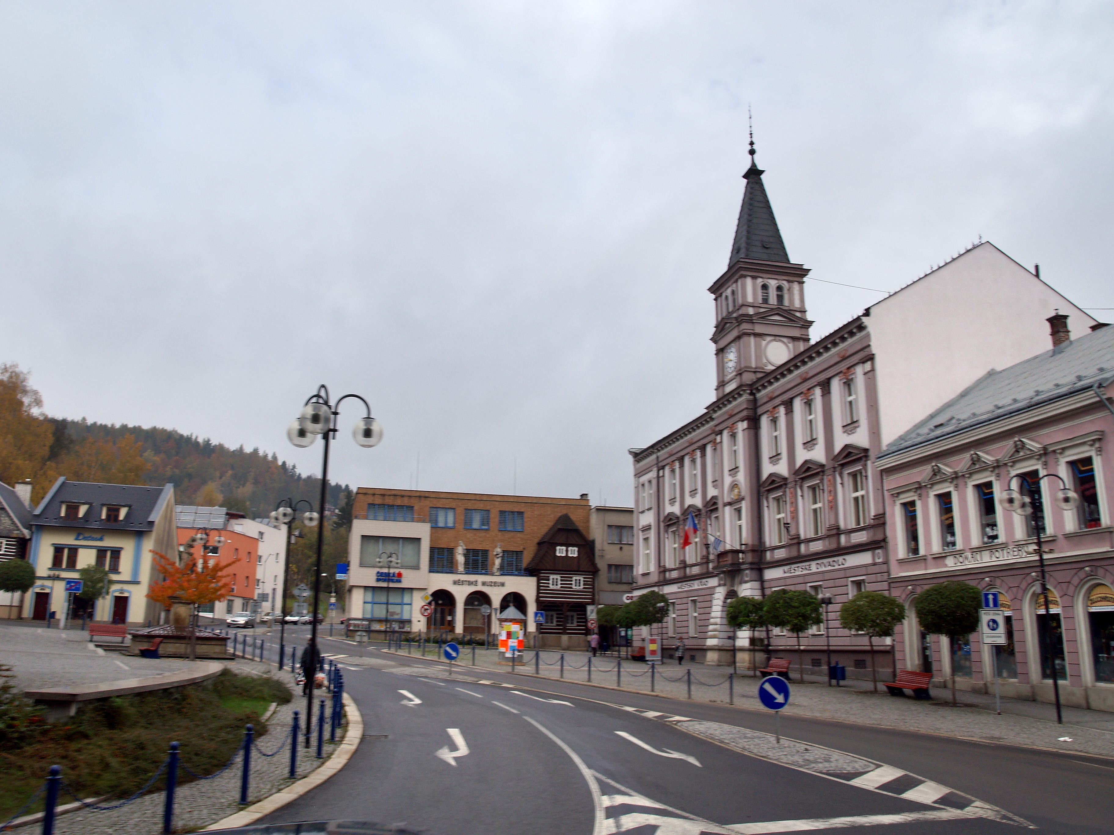 Czech town Železný Brod–central square with museum building and Neo-Renaissance municipal house with theater